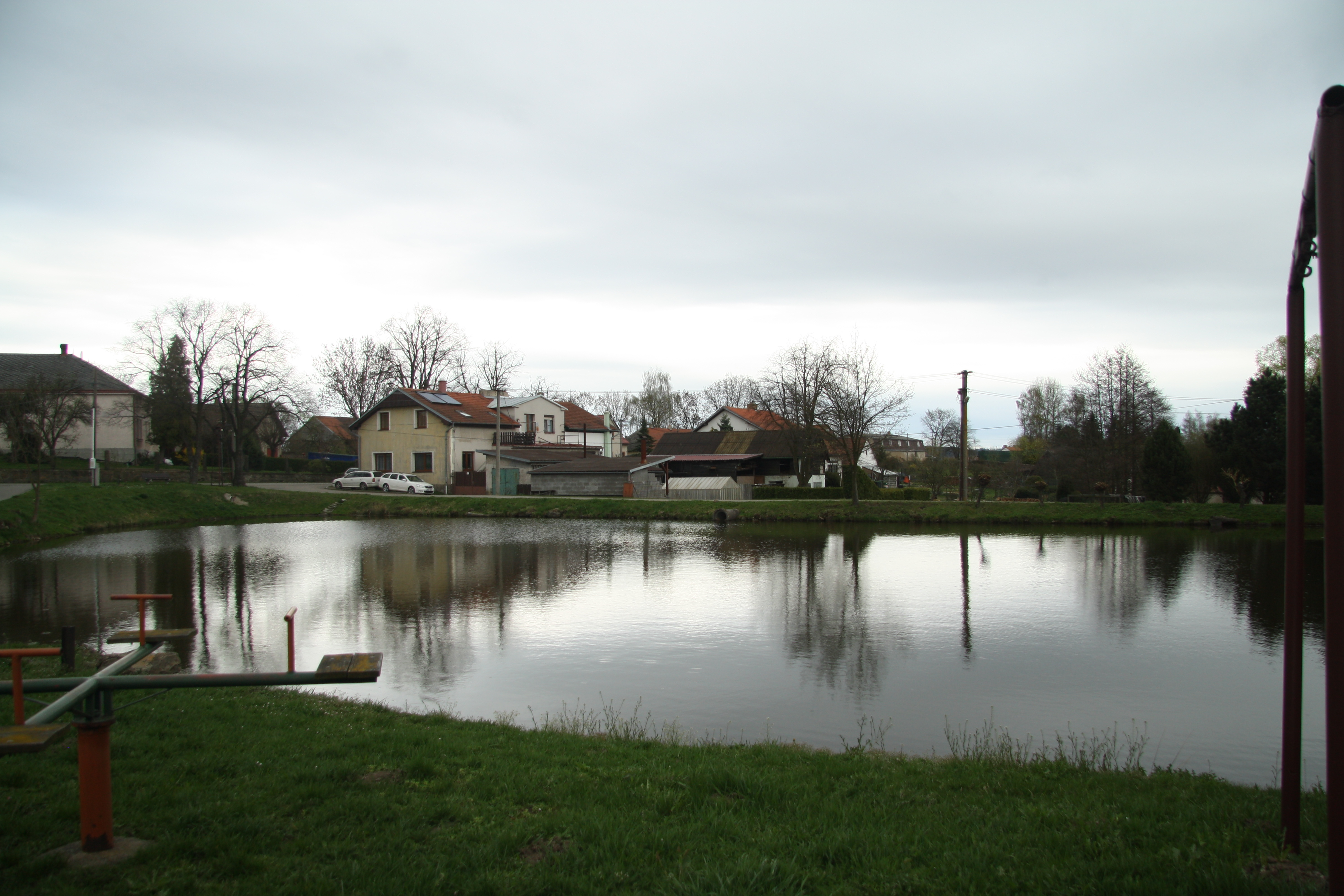 Center of Jeclov, Velký Beranov, Jihlava District.